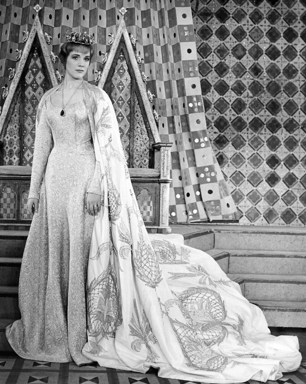 Photo of Julie Andrews as Guenevere from the musical Camelot.